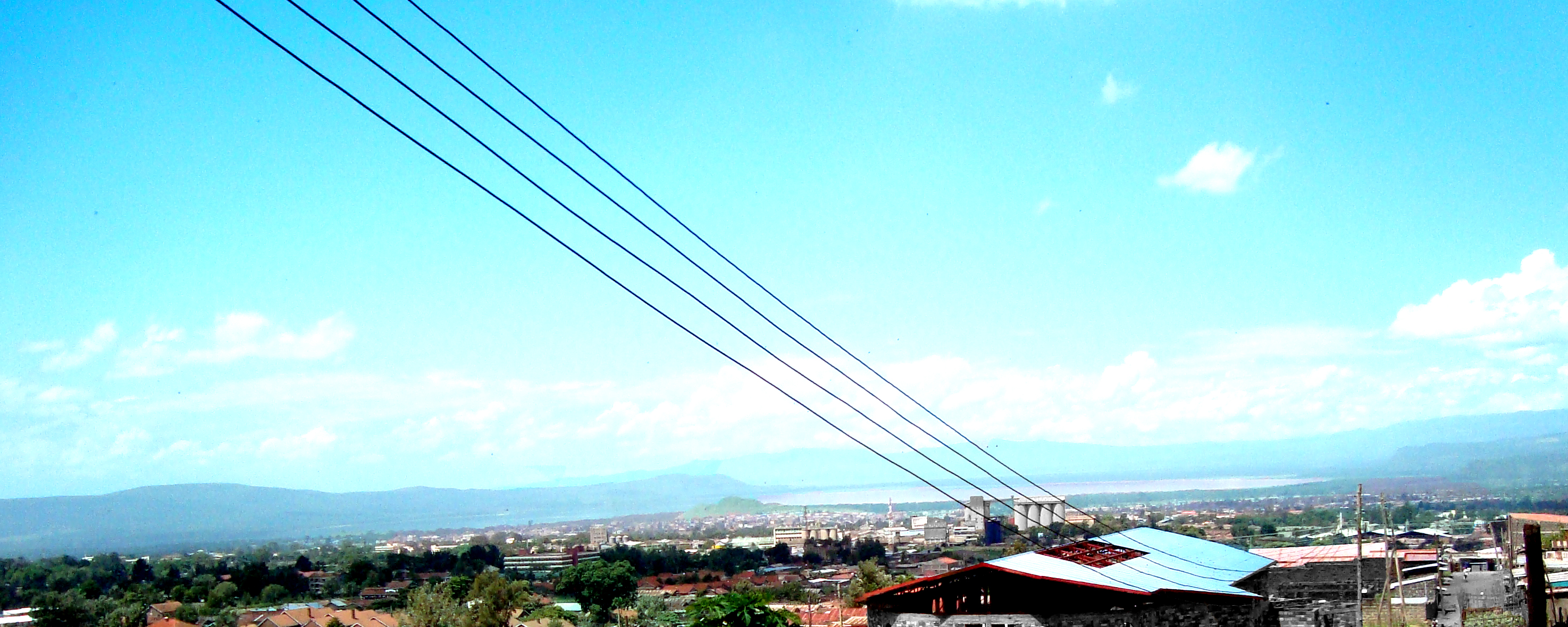 Photographer: Laura Kraft Date: May 2011 View over Hilton estate located in the North-Western part of Nakuru (visible in the background of the picture). Nakuru town hosts people with different cultures, ideologies, religious, political, social and economic aspirations.